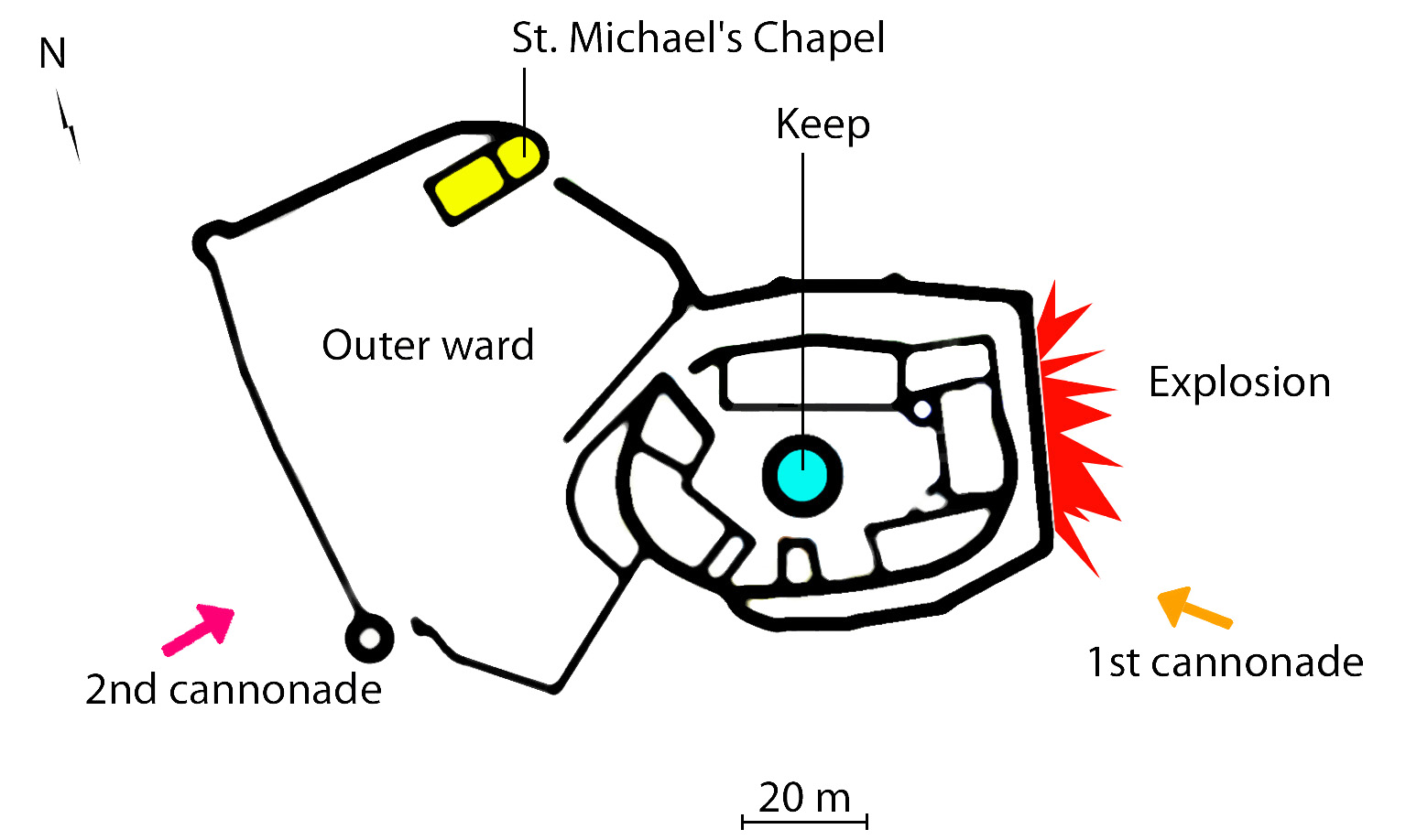 Beschuss und Sprengung der Godesburg 1583 / Godesburg cannonade and explosion in 1583; diagram is created following several similar layout plans drawn at various scales and levels of detail in Tanja Potthoff's dissertation (p. 30, p. 149) and on p. 199 of the book "... wurfen hin in steine, grôze und niht kleine...": Belagerungen und Belagerungsanlagen im Mittelalter; the sketch in the book shows the road layout of the village, based on a historical map from 1791, as well as the location of the cannons. The actual location of the cannons would be well beyond the margins of the picture; hence the arrows indicating the direction of fire.